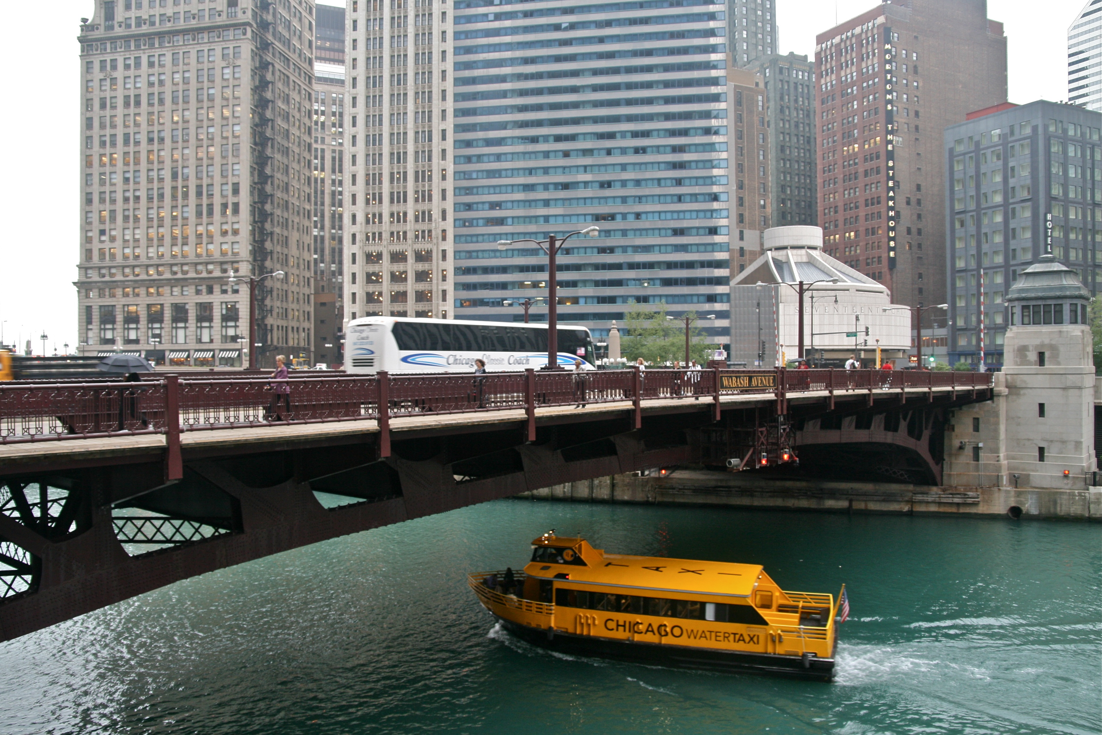 Photographer's caption on Flickr: A yellow RiverBus, transporting commuters on the Chicago River, passing beneath the Irv Kupcinet Bridge. The bridge was built in 1930, to allow Wabash Avenue to cross the river, so it's also known as Wabash Avenue Bridge. It got its official name in 1986, after the popular Chicago Sun-Times columnist Irv Kupcinet.